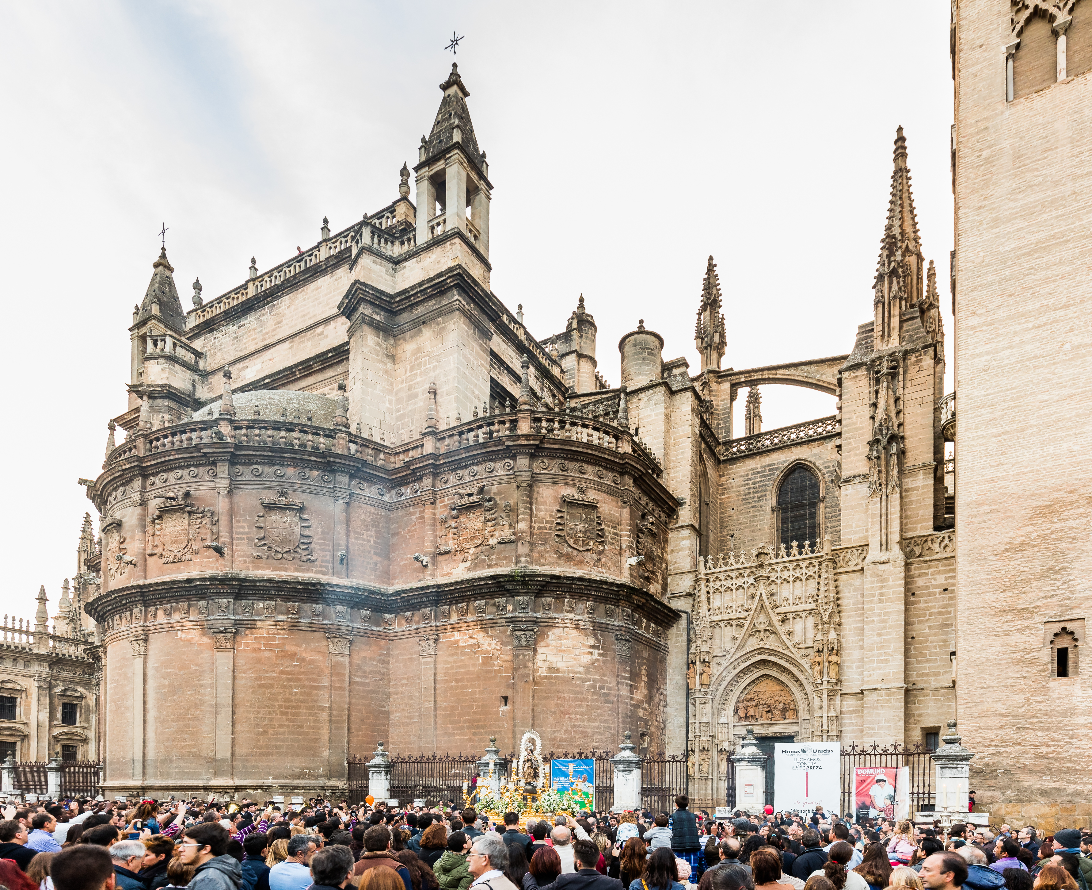 Immaculate procession, Seville, Spain